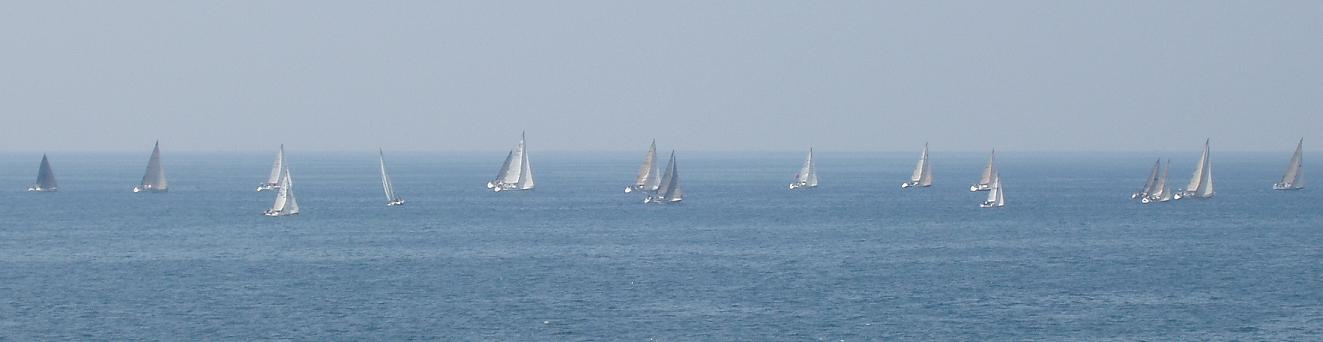 Sailboats in Napoli bay, pictured by David Shay.